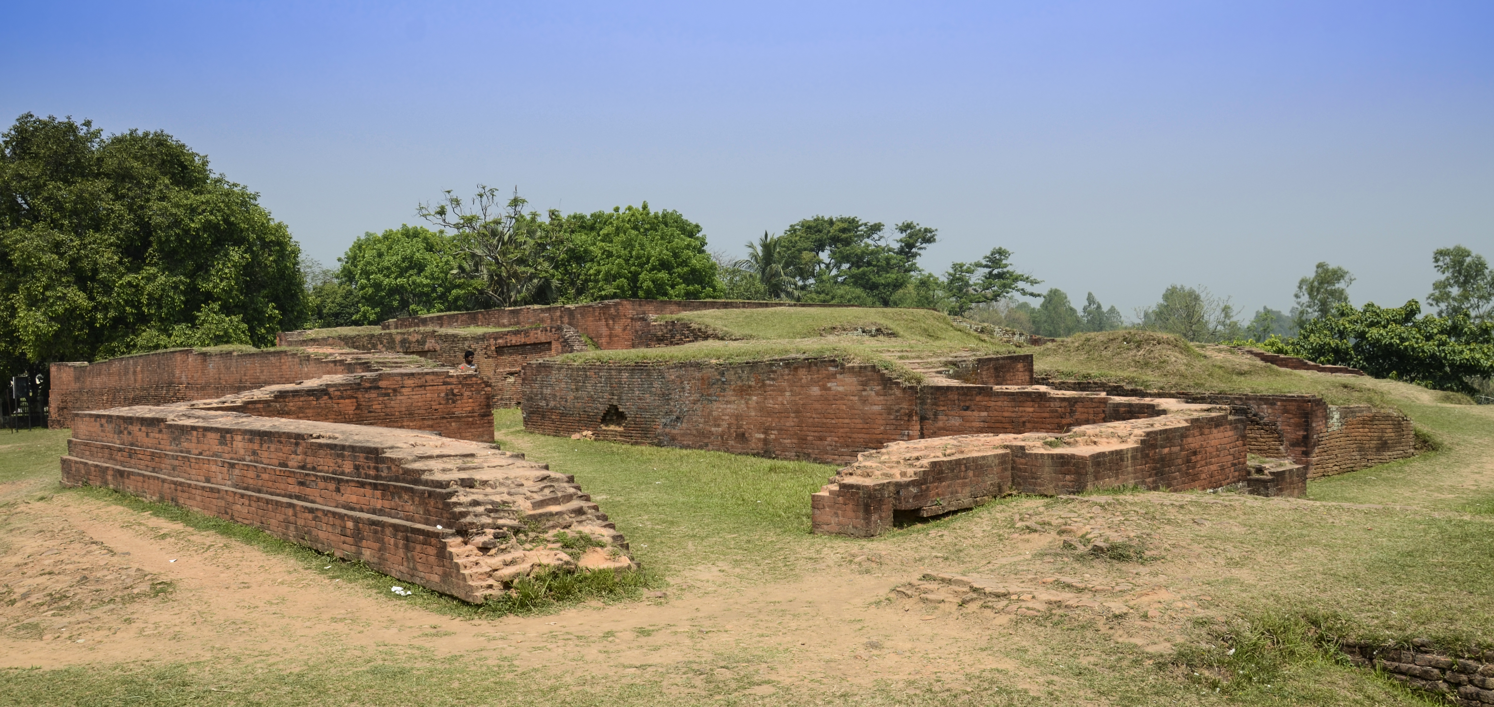 This Archaeological site locally known as Govinda Bhita is situated on the bank of river Karatoya out side the northern rampart wall of Mahasthangarh. The karatoya, a metrical sanskrit work of 12th-13th century mentions the temple (Govinda Bhita) on the northern limit of the holy city. Though tradition ascribes it was the temple of Govinda or Vishun but nothing came of light which may be associated with the vishnuvite character of the buildings. Archaeological excavations were out here in 1928-29 and 1960 consequently the cultural objects of various periods commencing from 2nd century B.C. to Mohammedan occupation have been uncovered. but no significant architectural remains have been discovered before gupta era. The excavation have revealed the remains of two temples-eastern and western within a massive enclosure. These temples were constructed and reconstructed in 4 building phases commencing from Late Gupta period (6th century A.D) Important antiquities discovered as Govinda Bhita includes cast copper coins, silver coins, terracotta, female figurines with sunga affinities, terracotta seal bearing Brahmi script and semi precious stone beads.